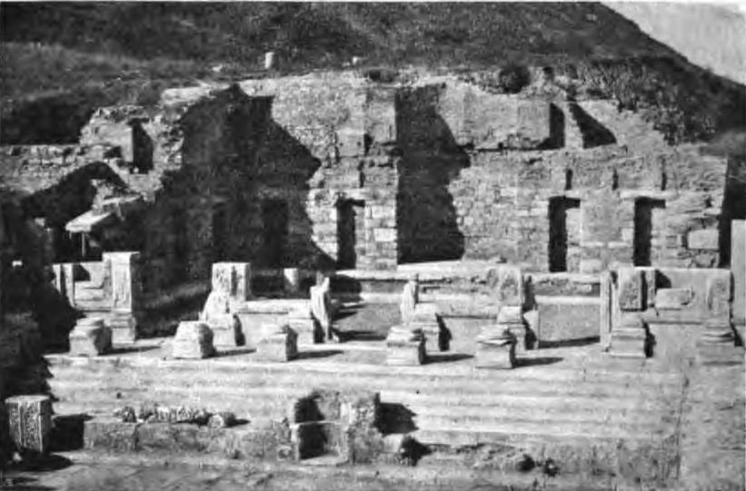 The library of Ephesos in Turkey before reconstruction (1905).